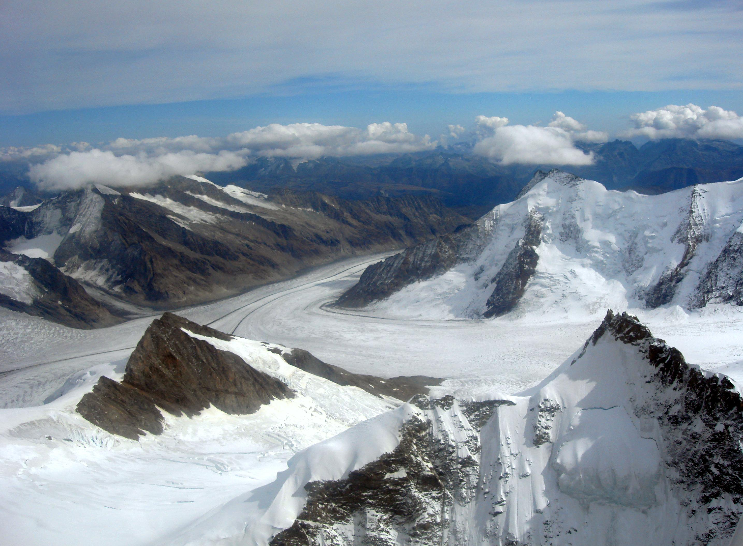 Gletscherhorn and Aletsch glacier, Bernese Alps